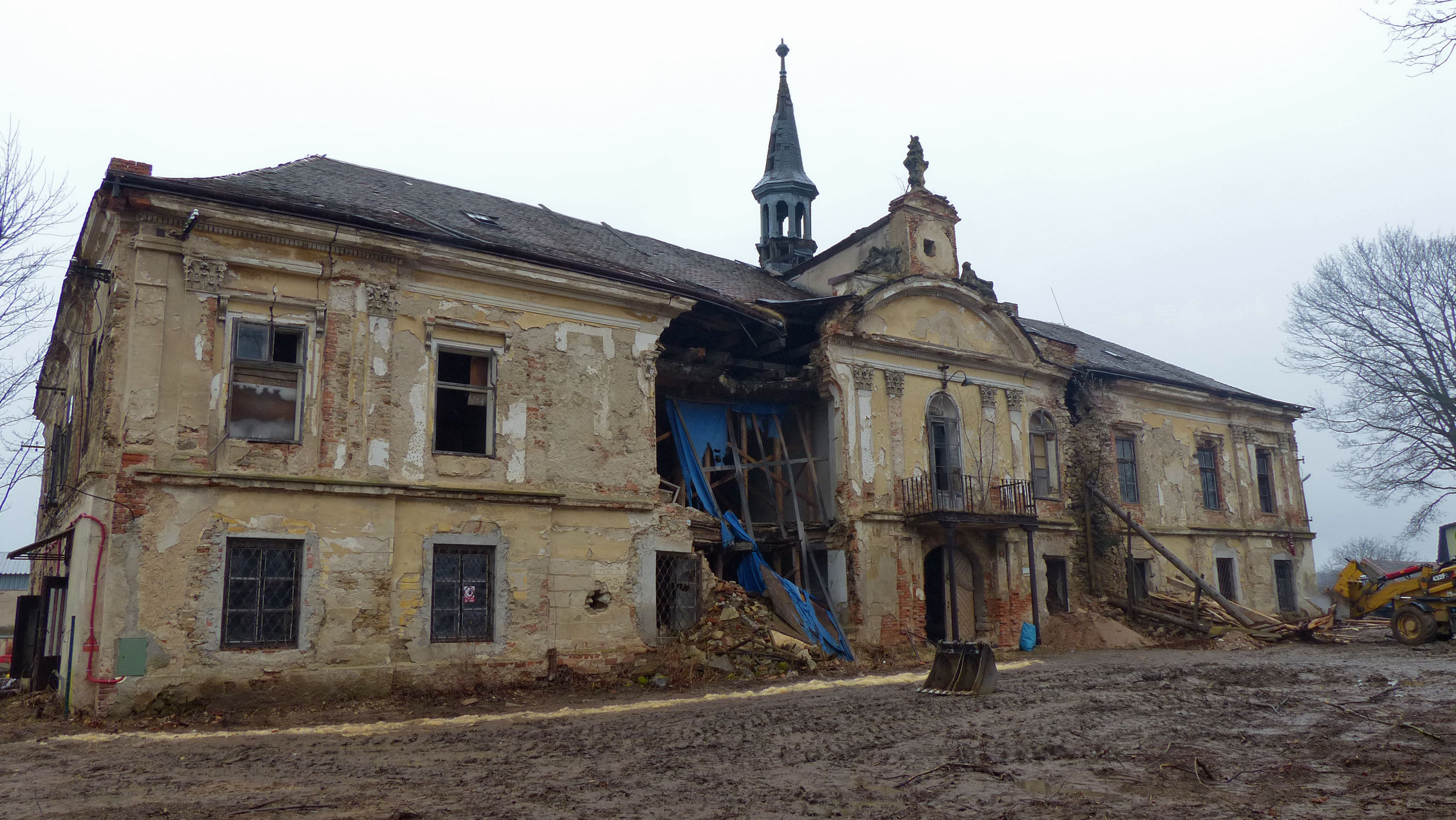 Chateau in Pravonín, Czech republic.